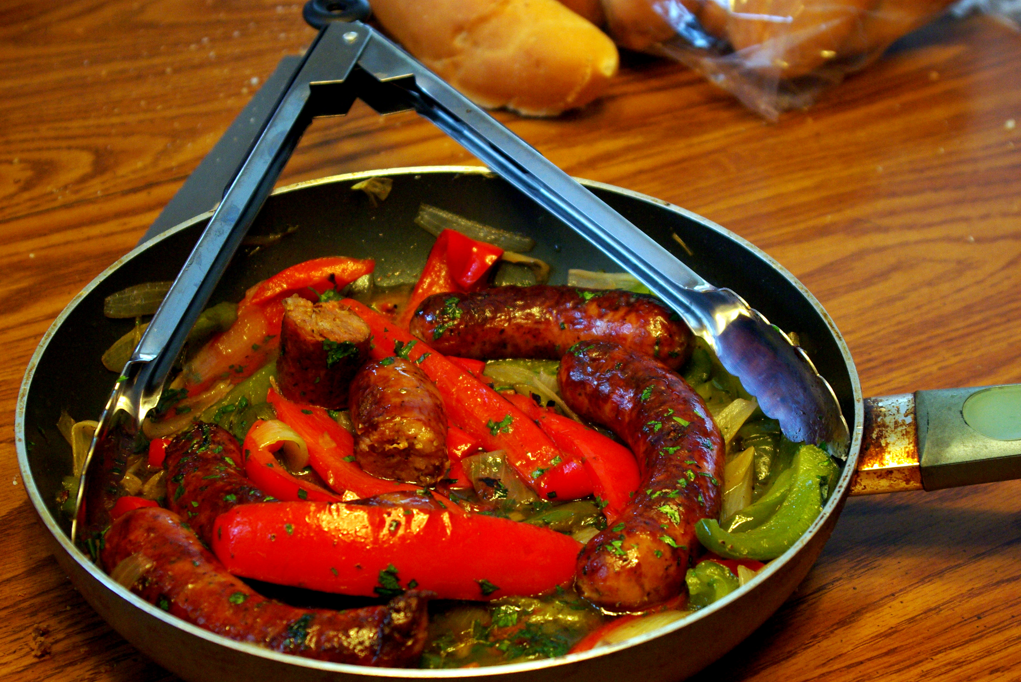 Good Italian sausage from Produce World in Morton Grove, broiled first, then added on top of bell peppers, onion, garlic all sauteeing in plenty of olive oil.